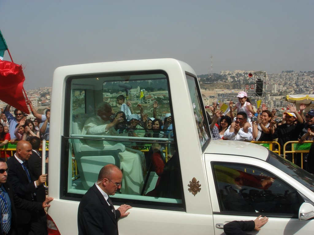 Israel 2009 by cseres Israel